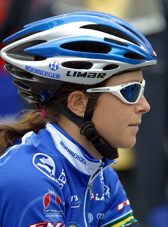 Oenone Wood prepares for the start of the first stage of the Thueringen Rundfahrt.